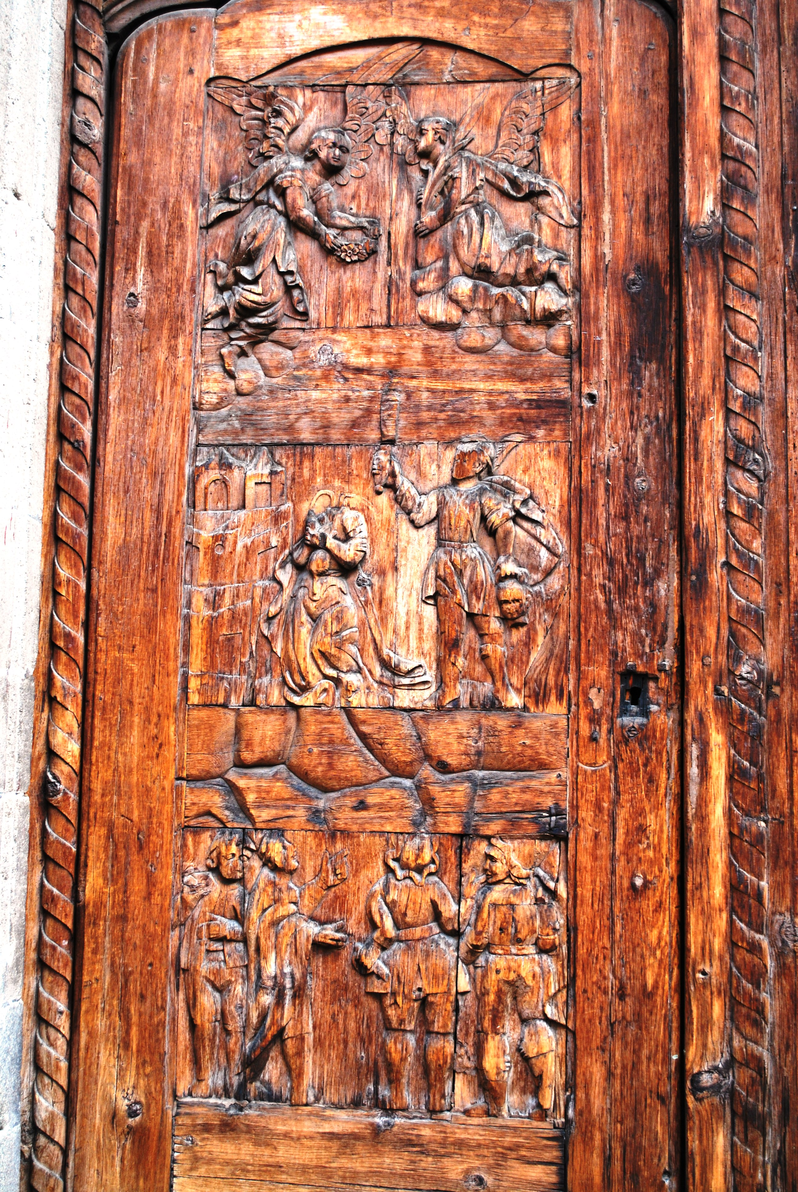 One of the scenes carved on one of the doors of the Santa Ines Church in the historic center of Mexico City. This scene shows a decapitated Saint James.